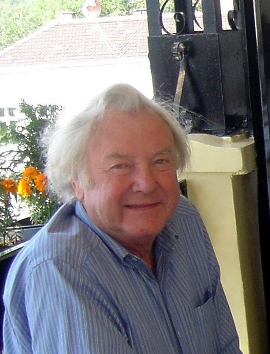 Professor Alan Watson, Distinguished Research Professor and Ernest P. Rogers Chair at the University of Georgia School of Law